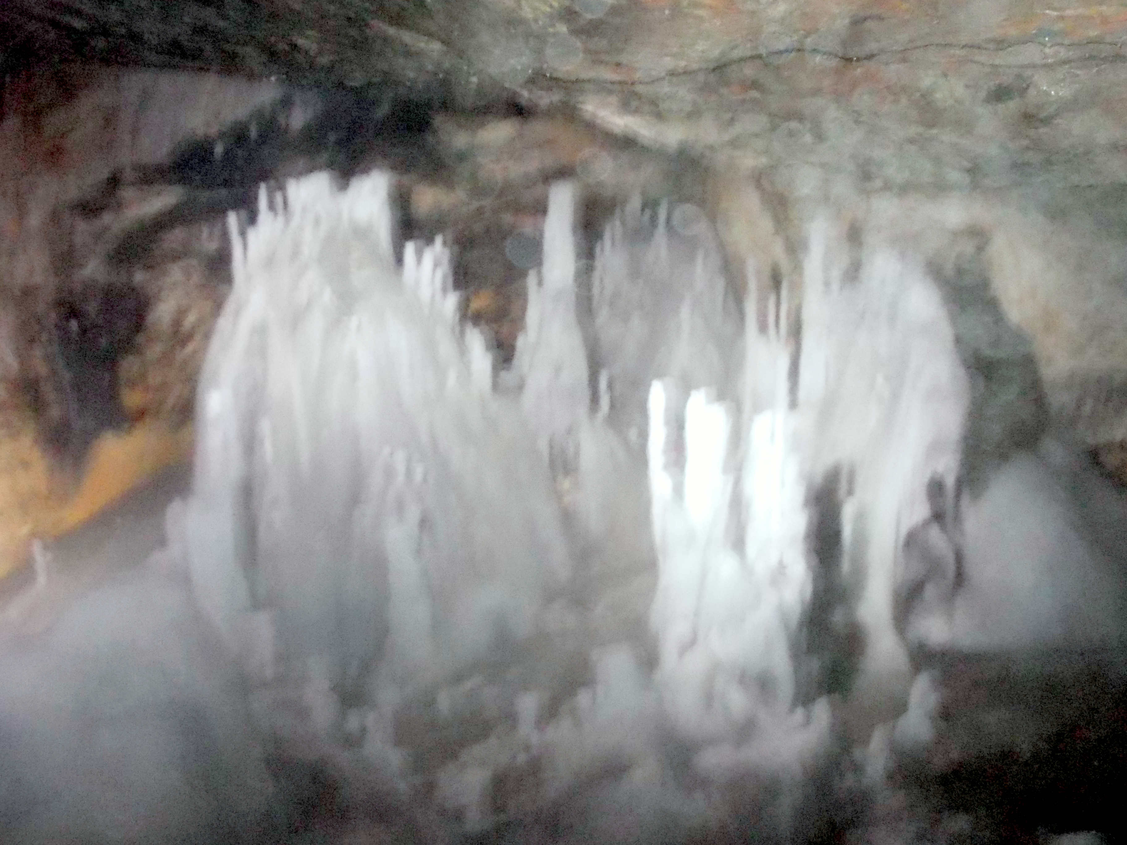 Scărișoara Cave, Alba county, Romania